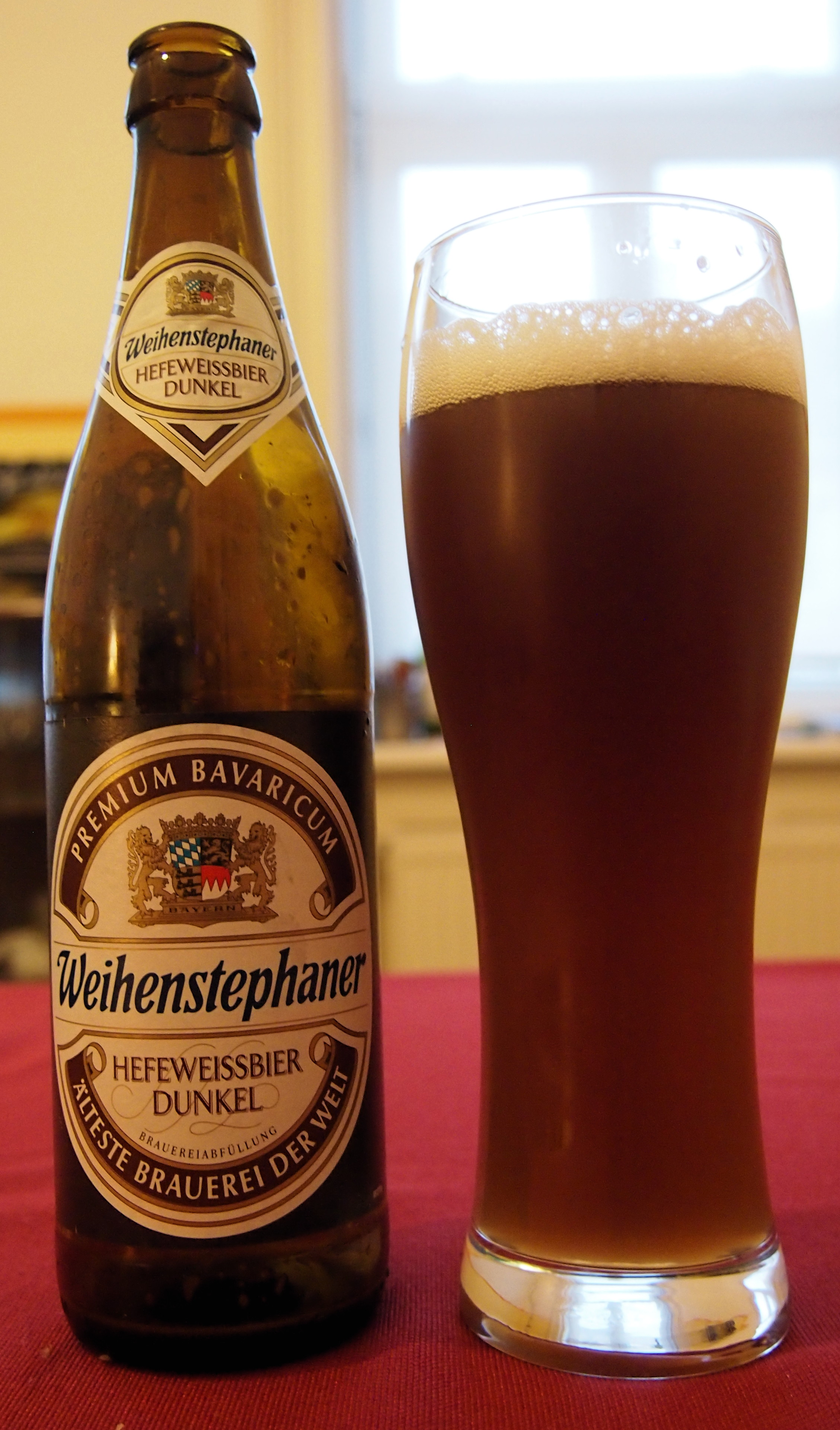 Dark Weissbier (Wheat Beer), brewed by the Weihenstephan Brewery, Bavaria.